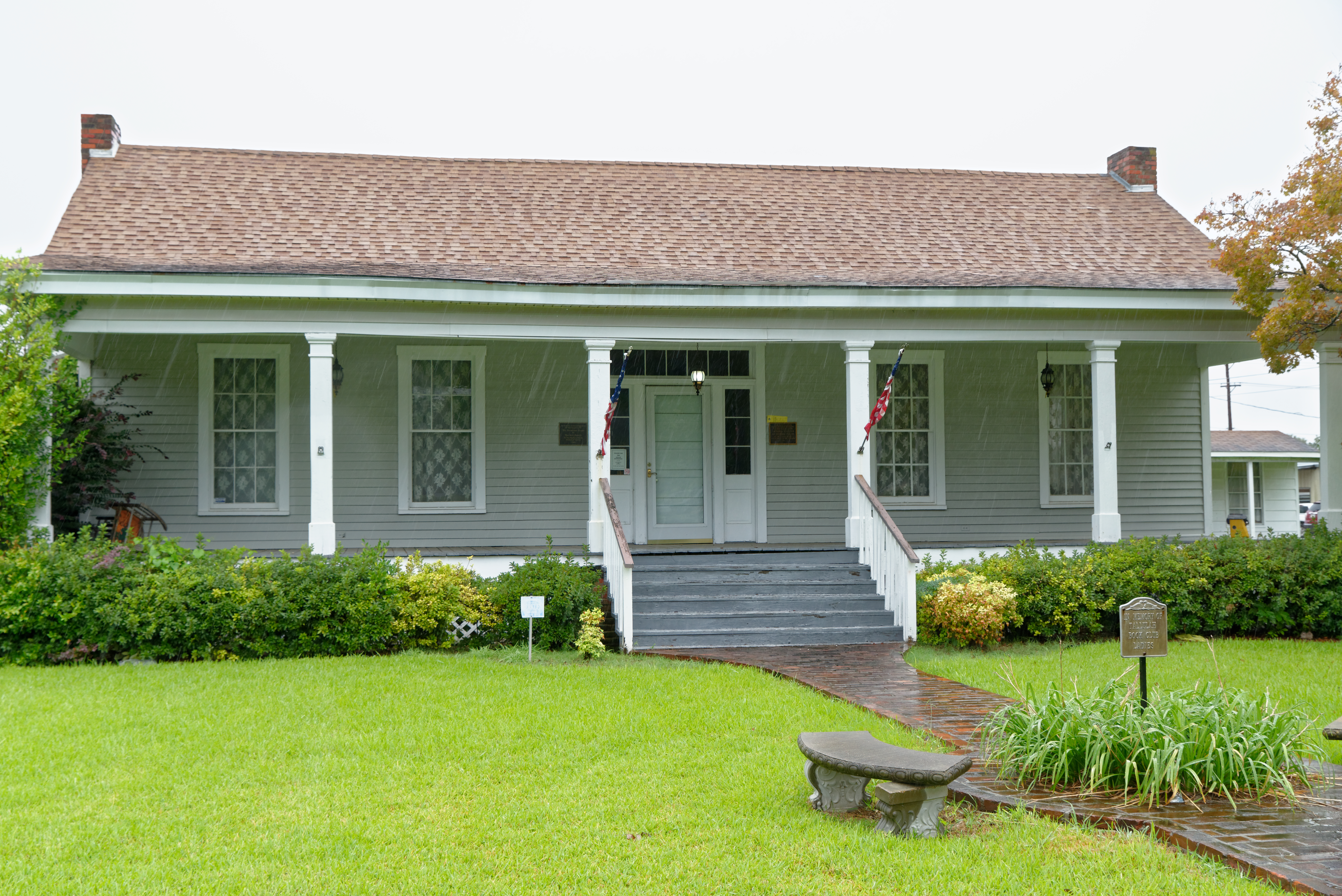 Hermione Museum